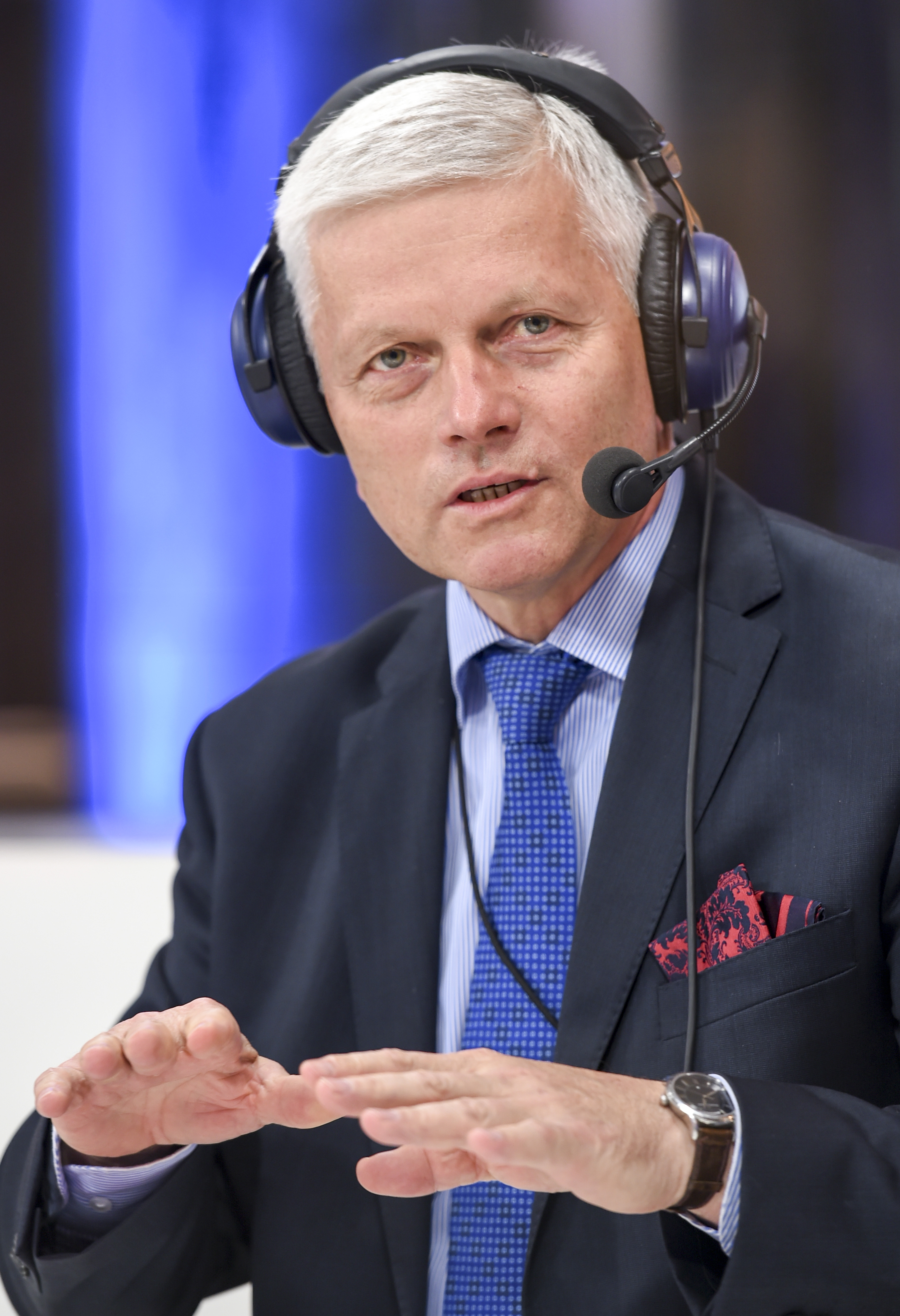 The slogan of the EU’s Year for Development 2015 #EYD2015 is an appeal to join the cause: “Our world, our dignity, our future”. To discuss this critical phase for Europe’s external policy, Euranet Plus, Europe’s largest radio network, in partnership with Polskie Radio (Poland), hosted a live debate in Brussels with development experts and members of the European Parliament. Get the guest list and all details at Part 1/2 | Polish | moderator Magdalena Skajewska | guests: - Ryszard Czarnecki, MEP, Poland, Vice-President of the European Parliament, European Conservatives and Reformists Group - Andrzej Grzyb, MEP, Poland, Group of the European People's Party (Christian Democrats) - Bogdan Brunon Wenta, MEP, Poland, Group of the European People's Party (Christian Democrats), Member DEVE Committee on Development